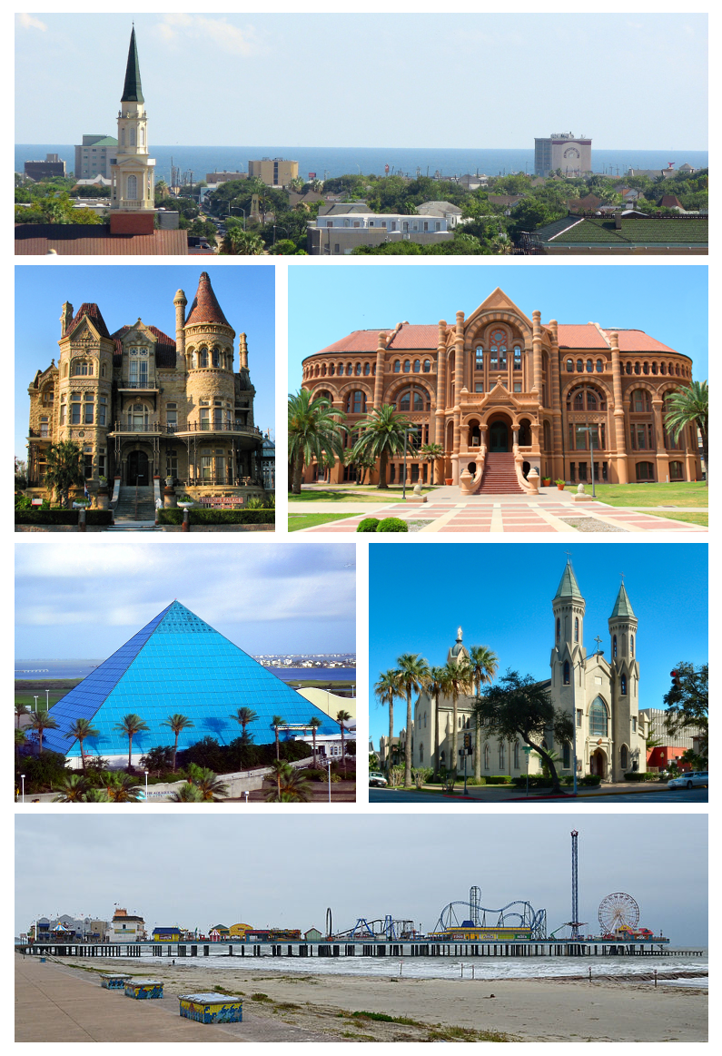 Collage of various landmarks from Galveston, Texas.